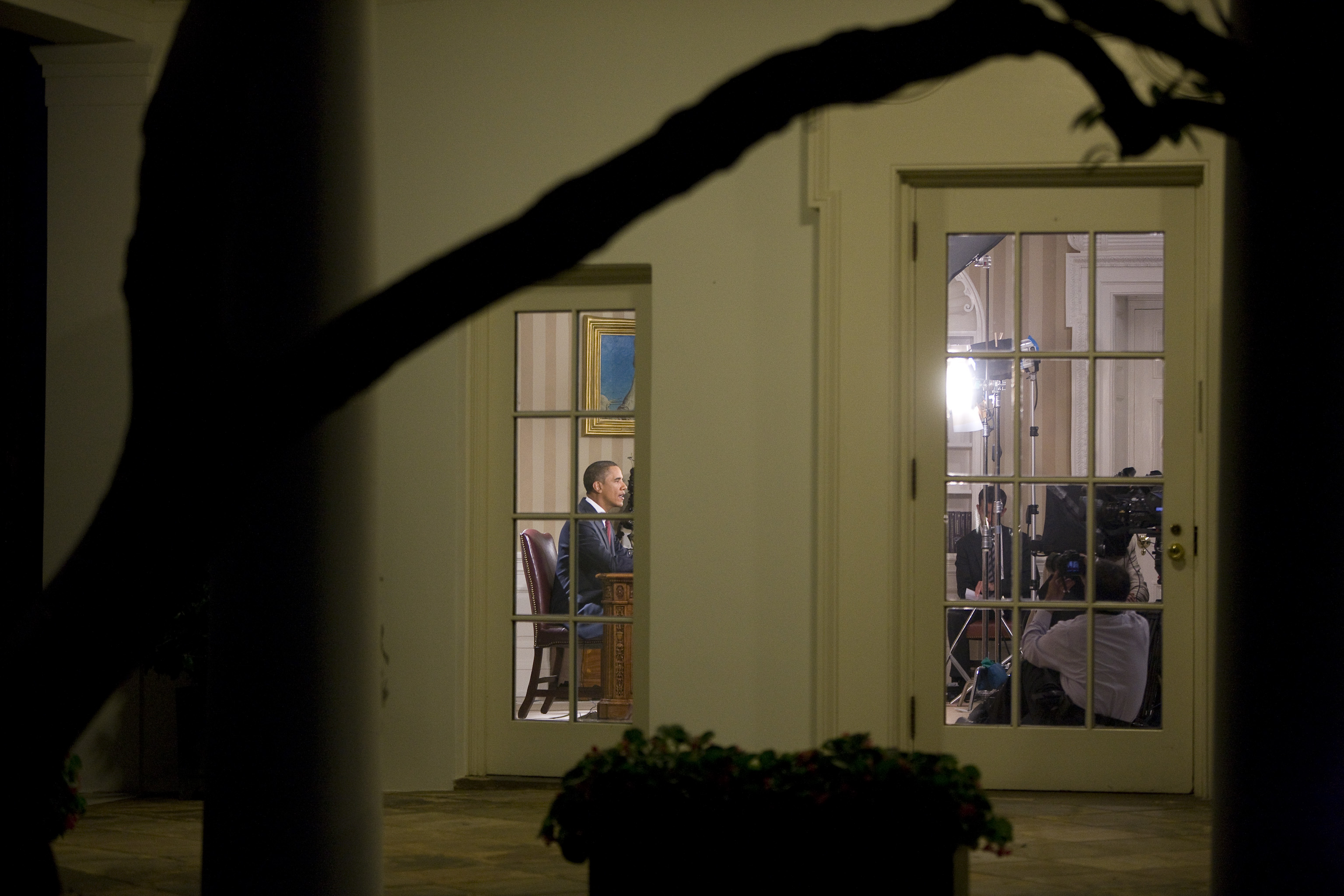 President Barack Obama delivers an address to the nation on the end of the combat mission in Iraq from the Oval Office August 31, 2010.